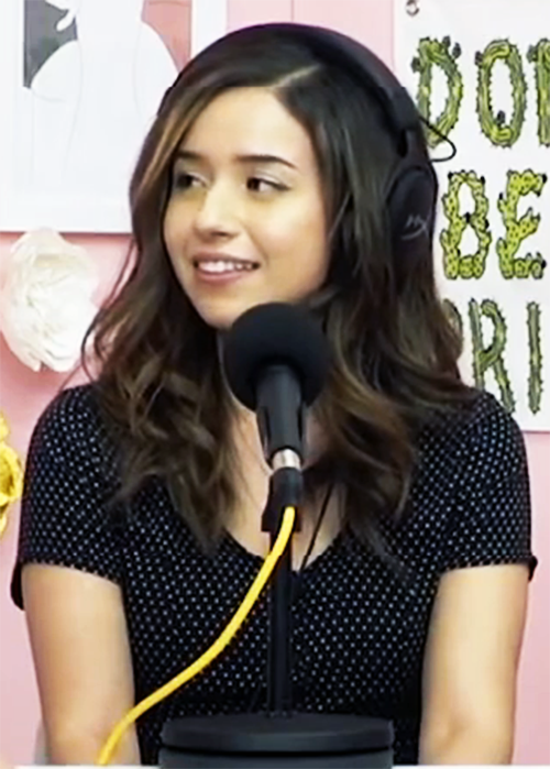 Pokimane on a podcast in November 2019